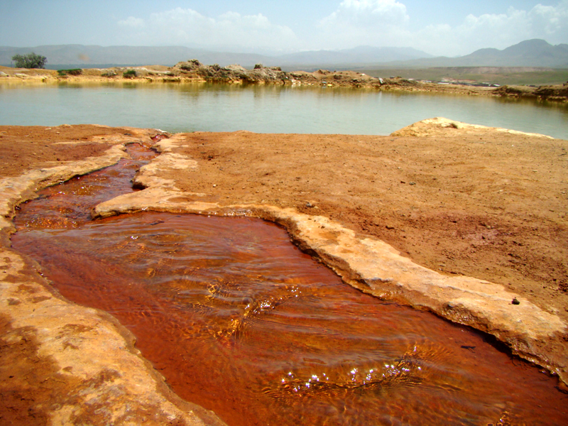 Tap Tapan Mineral Spring in Azar shahr, Tabriz.